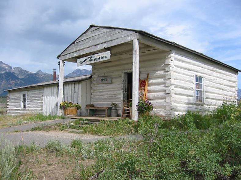 Bill Menor's Homestead, Menor's Ferry, Grand Teton National Park, Wyoming USA. Listed on the National Register of Historic Places.